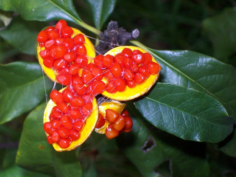 Pittosporum revolutum at Eastwood, NSW, Australia